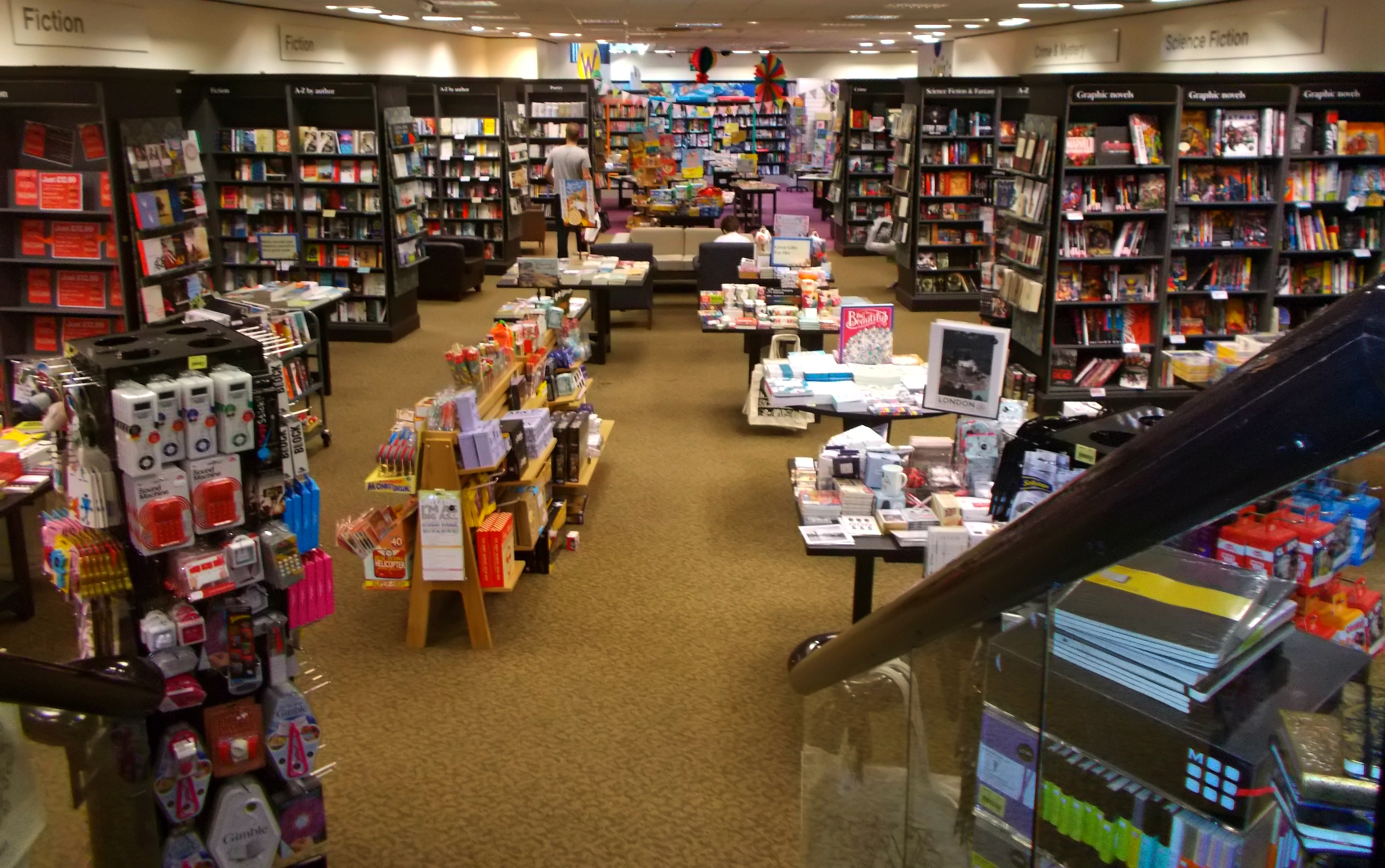 Waterstone's bookshop in Sutton High Street by Trinity Square, Sutton, Surrey, Greater London